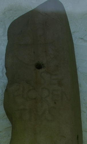 Kirkmadrine Stone II, Dumfries and Galloway, Scotland - detail of end 5th century christian stone, also known as the Florentius Stone